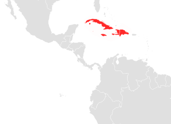 Distribution of Brachyphylla nana